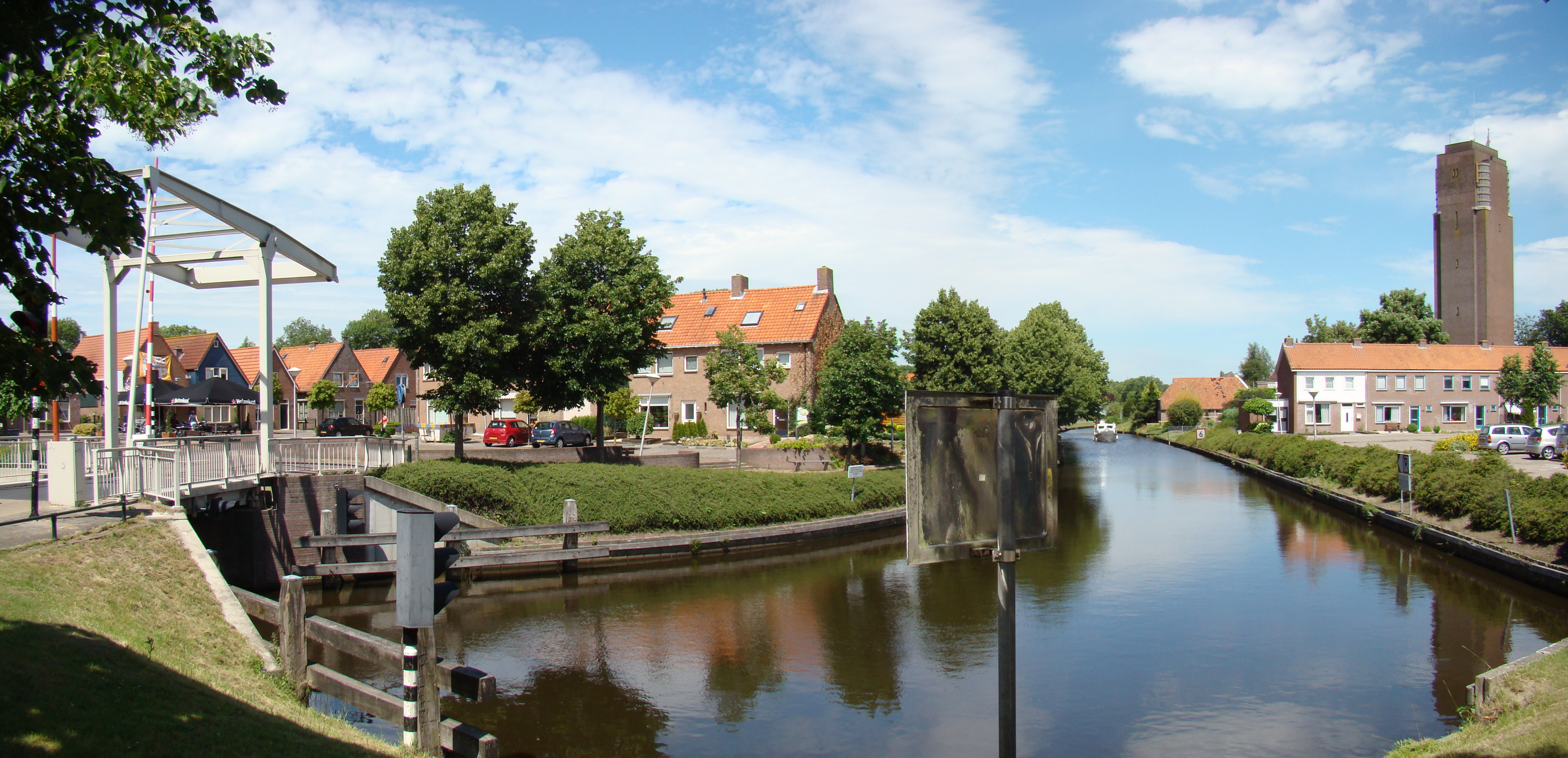 View on Kuinre, Netherlands